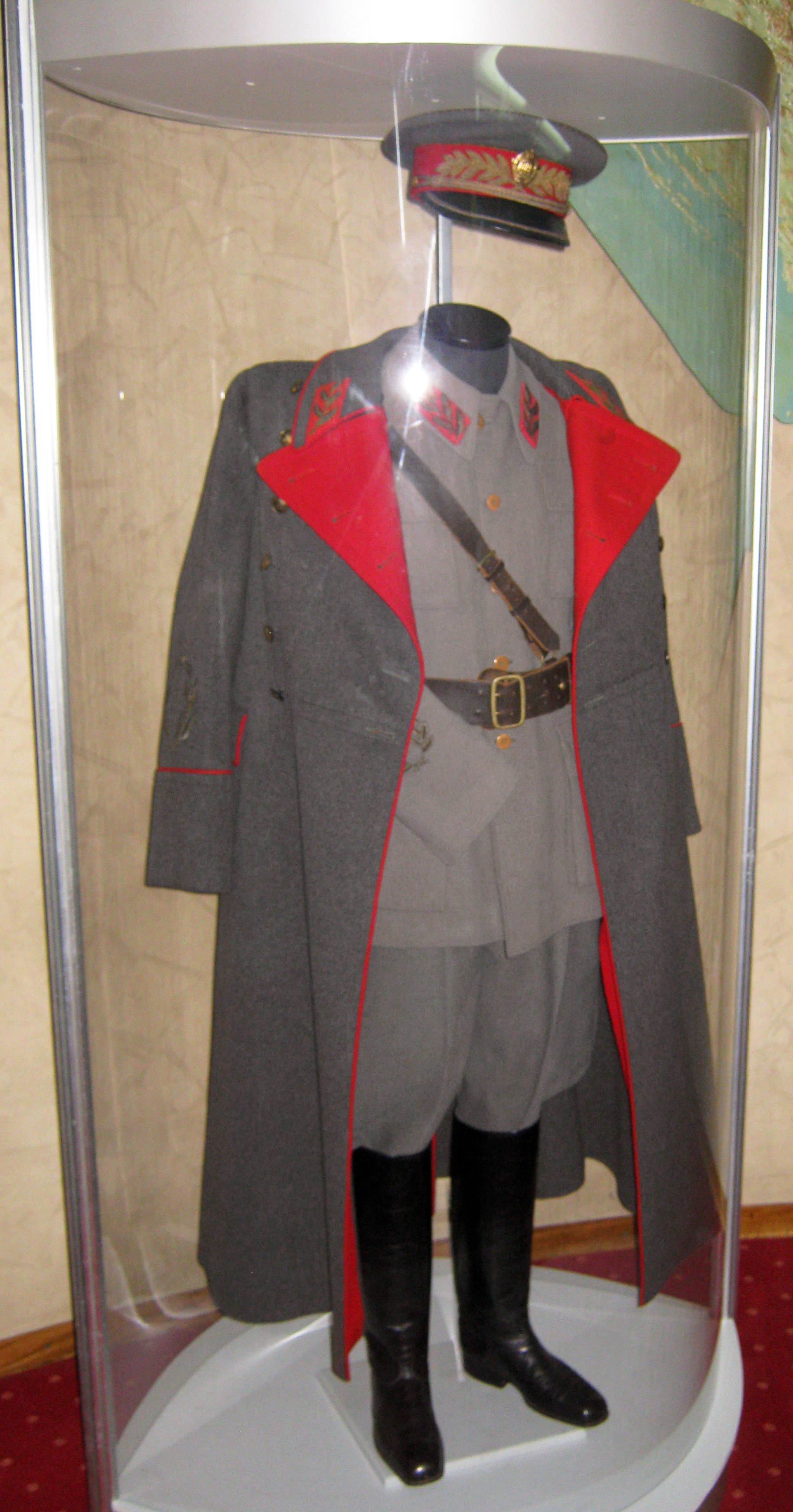 Uniform of Marshall Josip Broz Tito